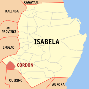 Map of Isabela showing the location of Cordon